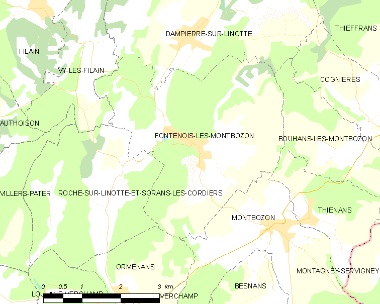 Map of French municipality